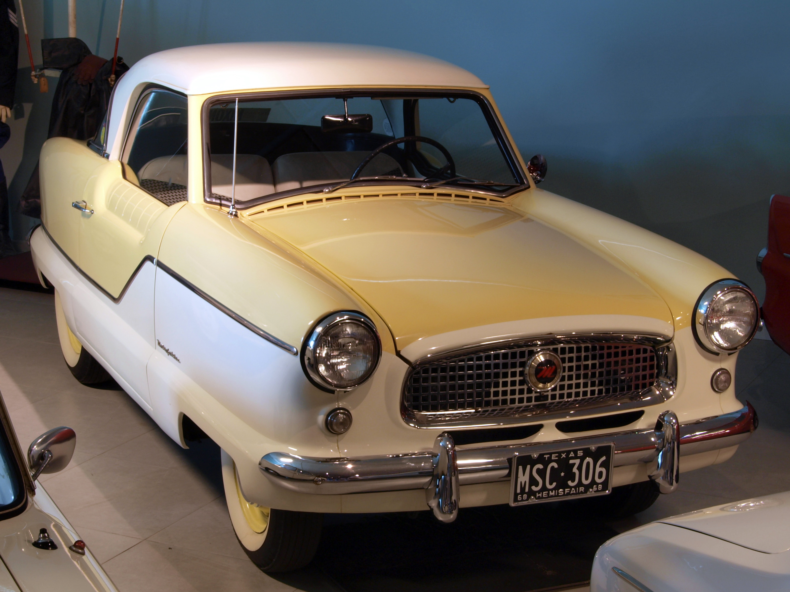 Photographed at the Louwman museum / Louwman Collection, The Netherlands.